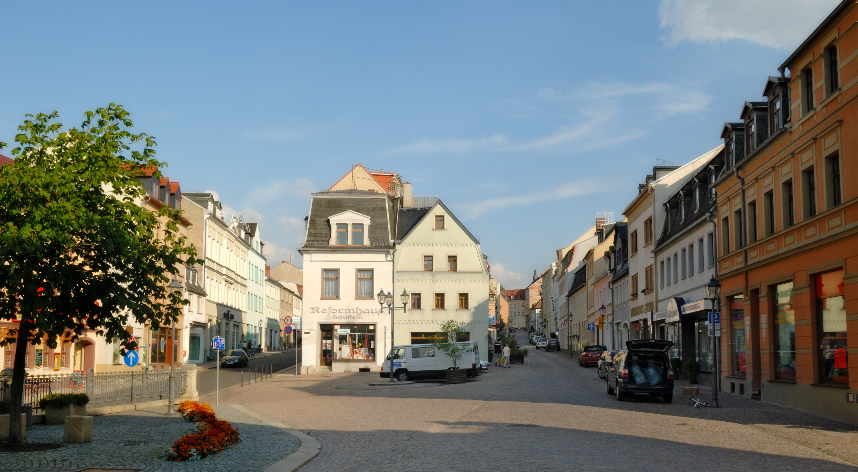 This image shows the neu market "Neumarkt" in Meerane, Germany.